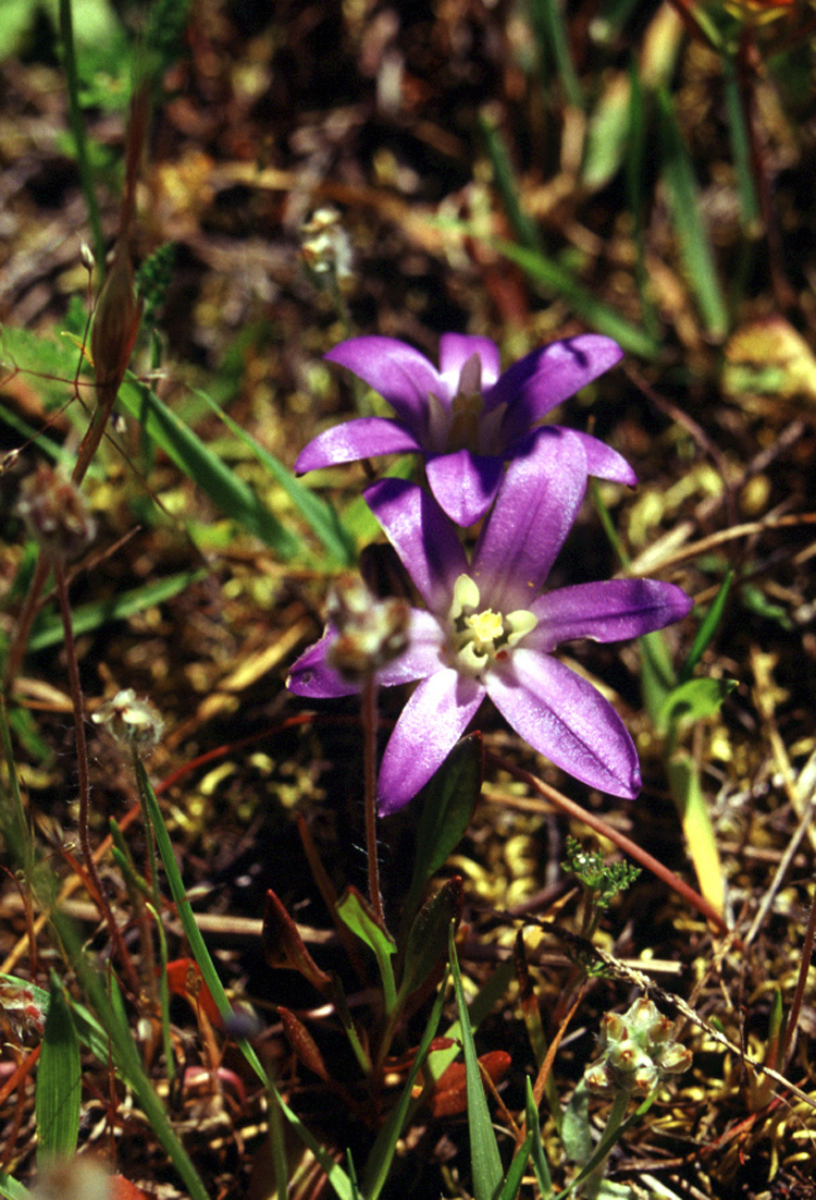 Brodiaea coronaria — Crown brodiaea. At the Humboldt Bay National Wildlife Refuge, Humboldt County, coastal Northern California.